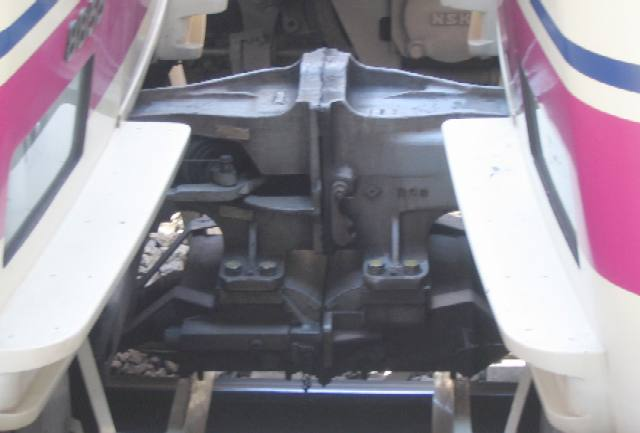 Scharfenberg coupler and electical connectors on a Keio 8000 Driving Trainers, coupled. Upper structure is Scharfenberg couplers while lower is electical connectors. The shell to cover electrical are moved upward. at Takahatafudō Station